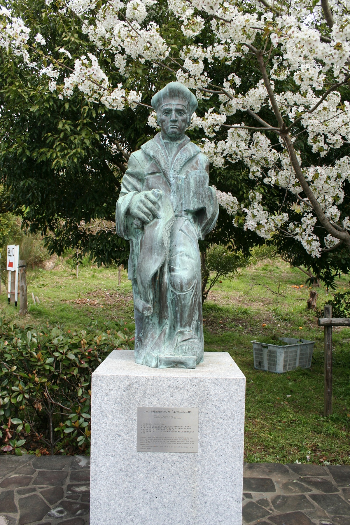 Statue of 'guardian angel' Erasmus on the stern of 'De Liefde' Erasmus (1469-1536) was born in Rotterdam in the Netherlands. He was poor, but received education at a theological school and studied in France, England, Germany and Italy. He published many works such as 'The Praise of Folly' and became one of Europe's best known humanisuts of the Middle Ages. "The statue of Erasmus" was set up at the stern of 'De Liefde' as a guardian angel.